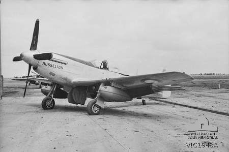 AWM caption : Australia: Victoria, Melbourne, Laverton. CAC CA-17 Mustang Mk 20 aircraft on the tarmac at RAAF Base Laverton. This aircraft, serial number A68-33, was among the group of P-51D’s (A68-1 to A68-80) that were assembled by Commonwealth Aircraft Corporation largely from kits imported from the USA This aircraft was also know as ‘Busselton’ and was used in support of War Loan fundraising activities. A68-33 was converted to components and written off in September 1958.